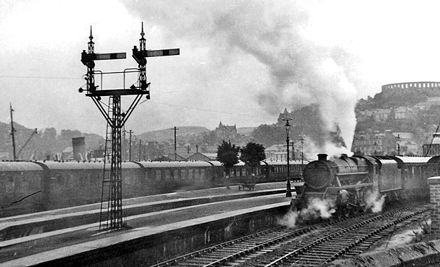 Oban Station. View NE, to buffer-stops; ex-Caledonian terminus of line from Glasgow, via Stirling and Callander until 28/9/65, when the line between Callander and Crianlarich was closed following a landslide and trains have been diverted via the West Highland Line south of there. But this is 1948 - on a wet day, of course - and a Stanier Class 5 4-6-0 is leaving on an express to Glasgow via Callander. The station is beside the harbour and a steamer - for Mull and many other Western Isles destinations, can be glimpsed.